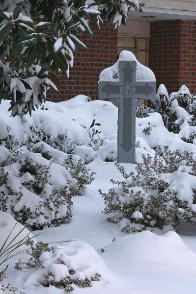 Snow covered Celtic cross in memorial garden